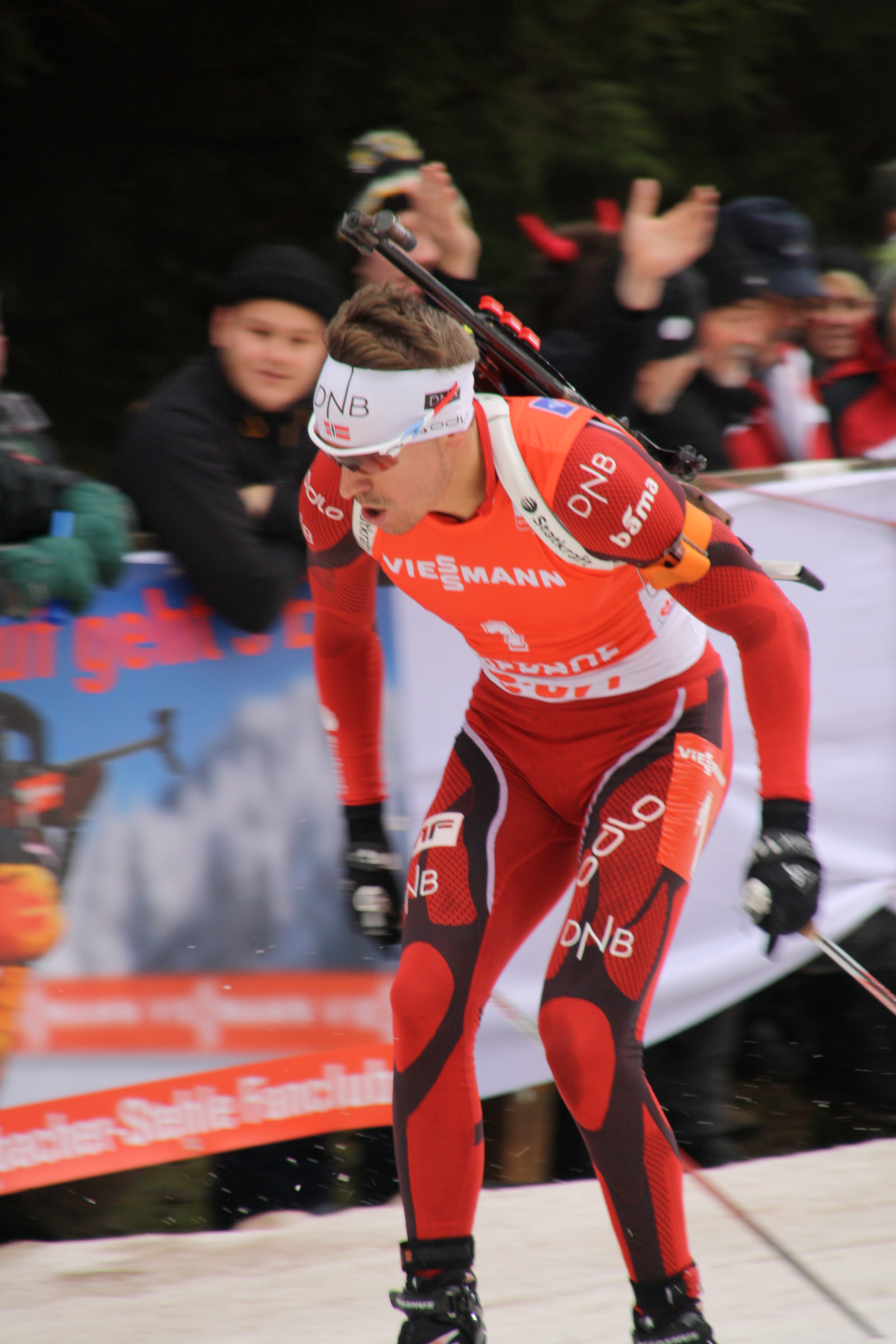 Biathlon World Cup Oberhof 2014 - Mens Pursuit